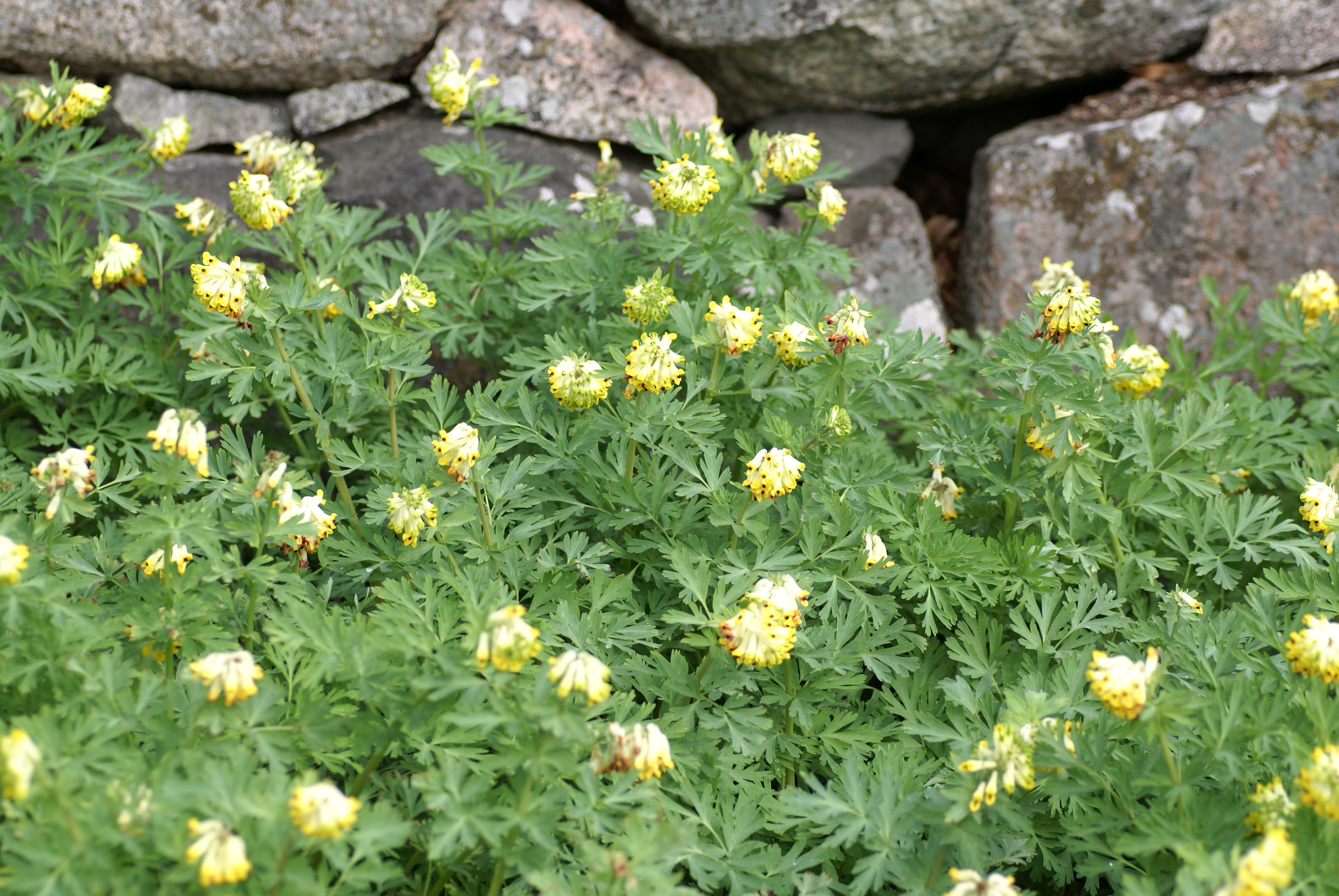 Plant species Corydalis nobilis